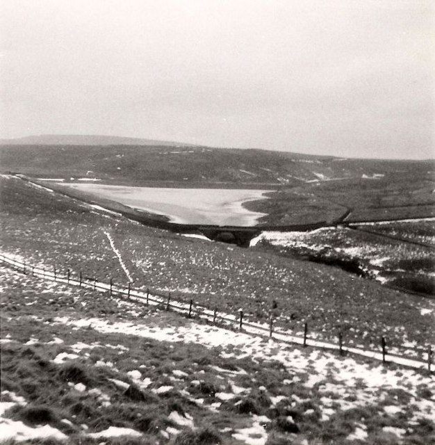 Dowry Reservoir, near Denshaw, Saddleworth - then in the West Riding of Yorkshire (at time of photograph) - now in Greater Manchester, England.